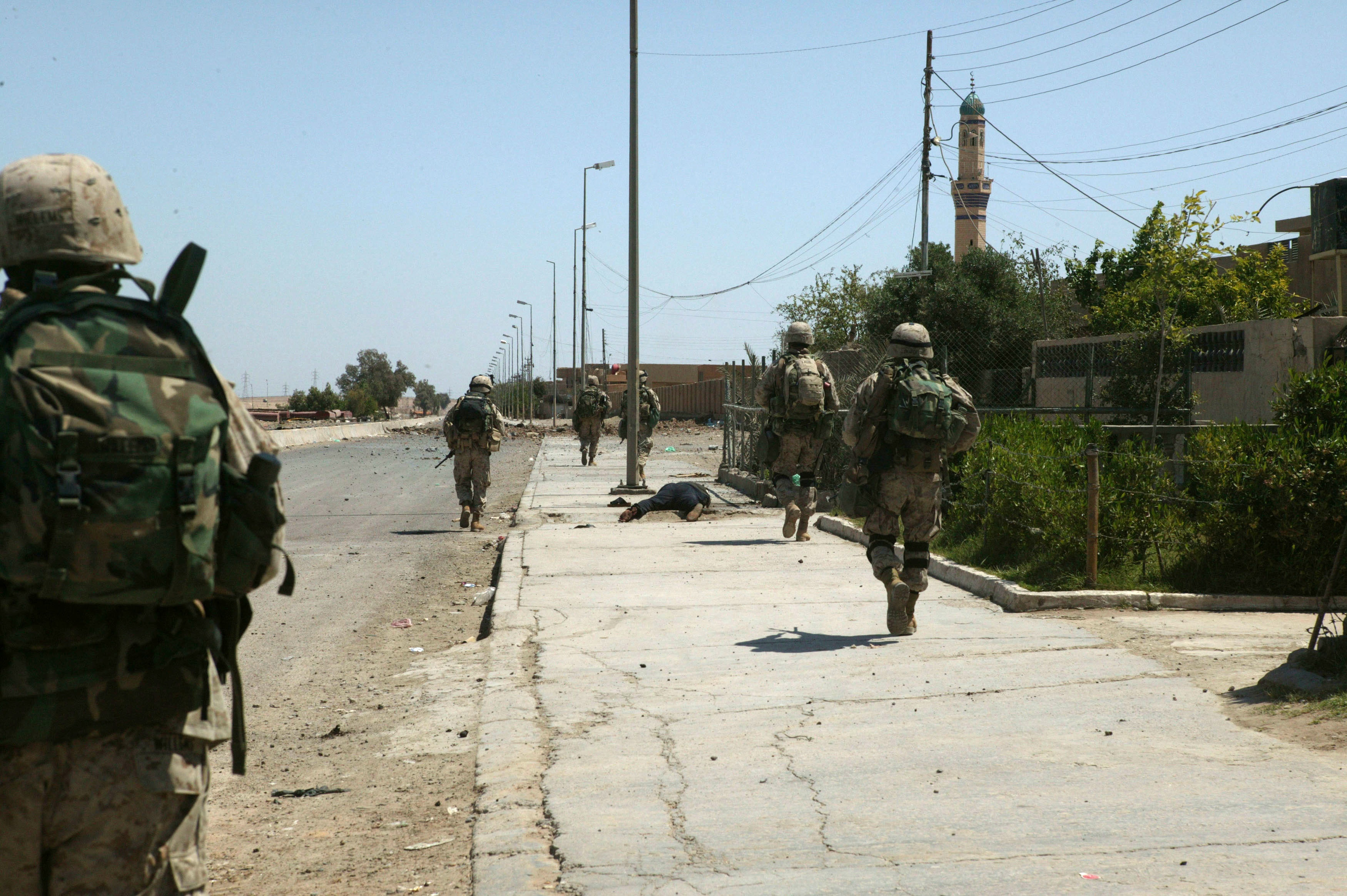 Original Caption: "A terrorist's body lies dead on a sidewalk after a brief firefight with U.S. Marines as 1st Platoon, Company E, 2nd Battalion, 1st Marine Regiment, 1st Marine Division make their way into Fallujah, Iraq. Marines are observing a suspension of offensive operations, but maintain the right to defend themselves against attack. U.S. Marine Corps photo by Sgt. Jose E. Guillen"